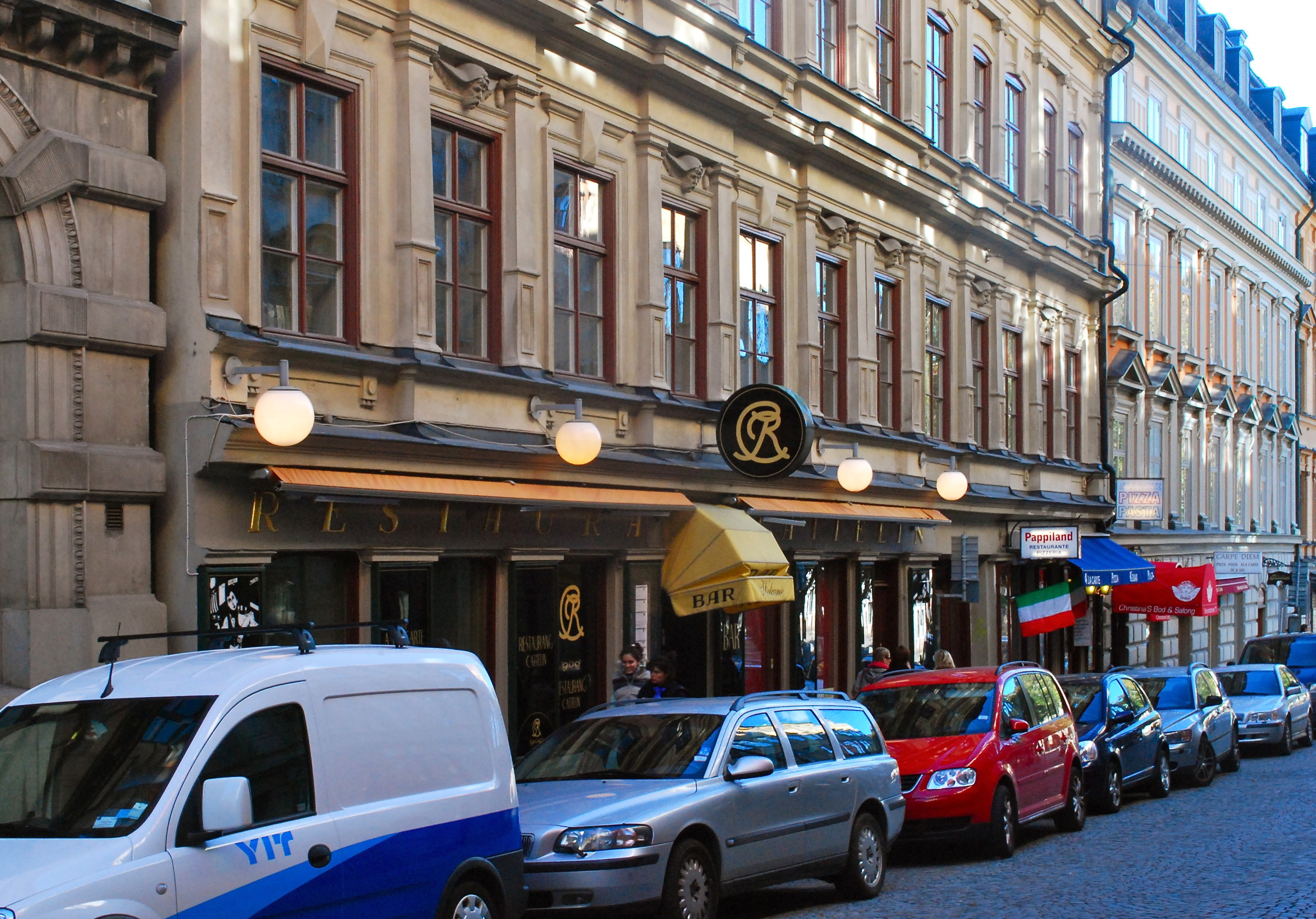 Restaurang Cattelin, Storkyrkobrinken 9.